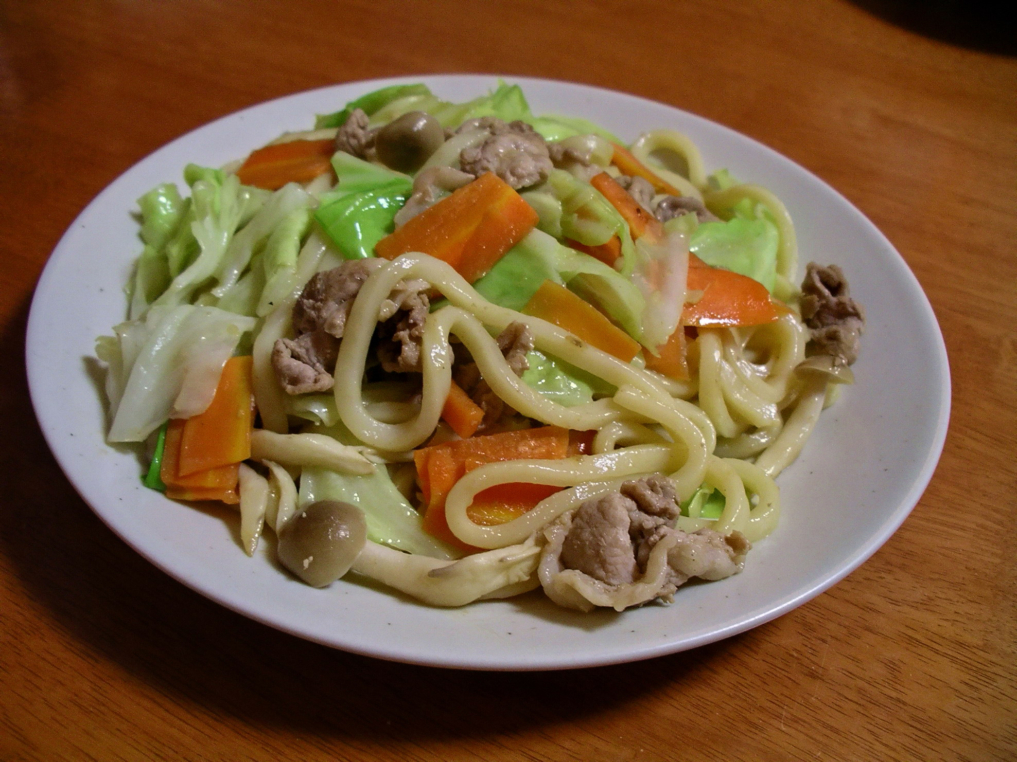 Yaki udon, stir-fried Japanese udon noodles in a soy-based sauce.